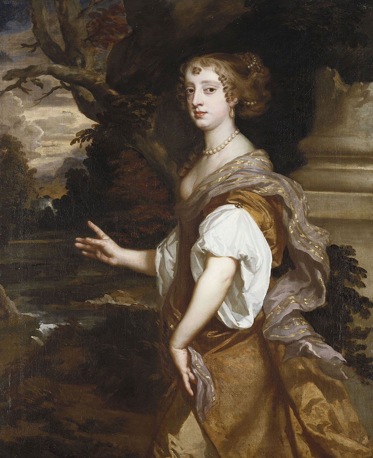 Lady Elizabeth Wriothesley, later Countess of Northumberland, later Countess of Montagu (1646-90), mother of Lady Elizabeth Percy, Countess of Ogle